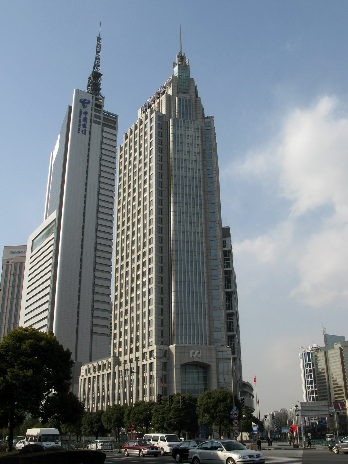 Pufa Tower, Lujiazui